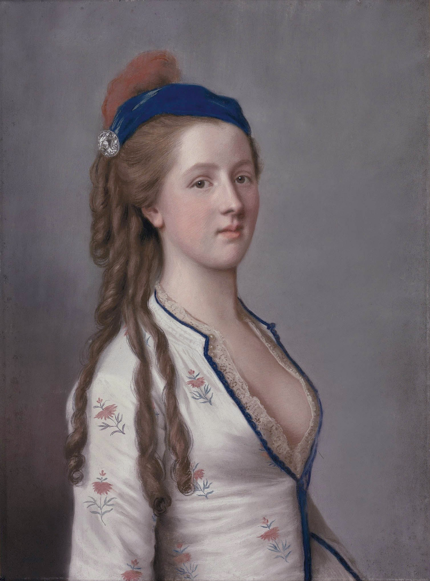 Lady Ann Somerset, Countess of Northampton (at the age of about 14)